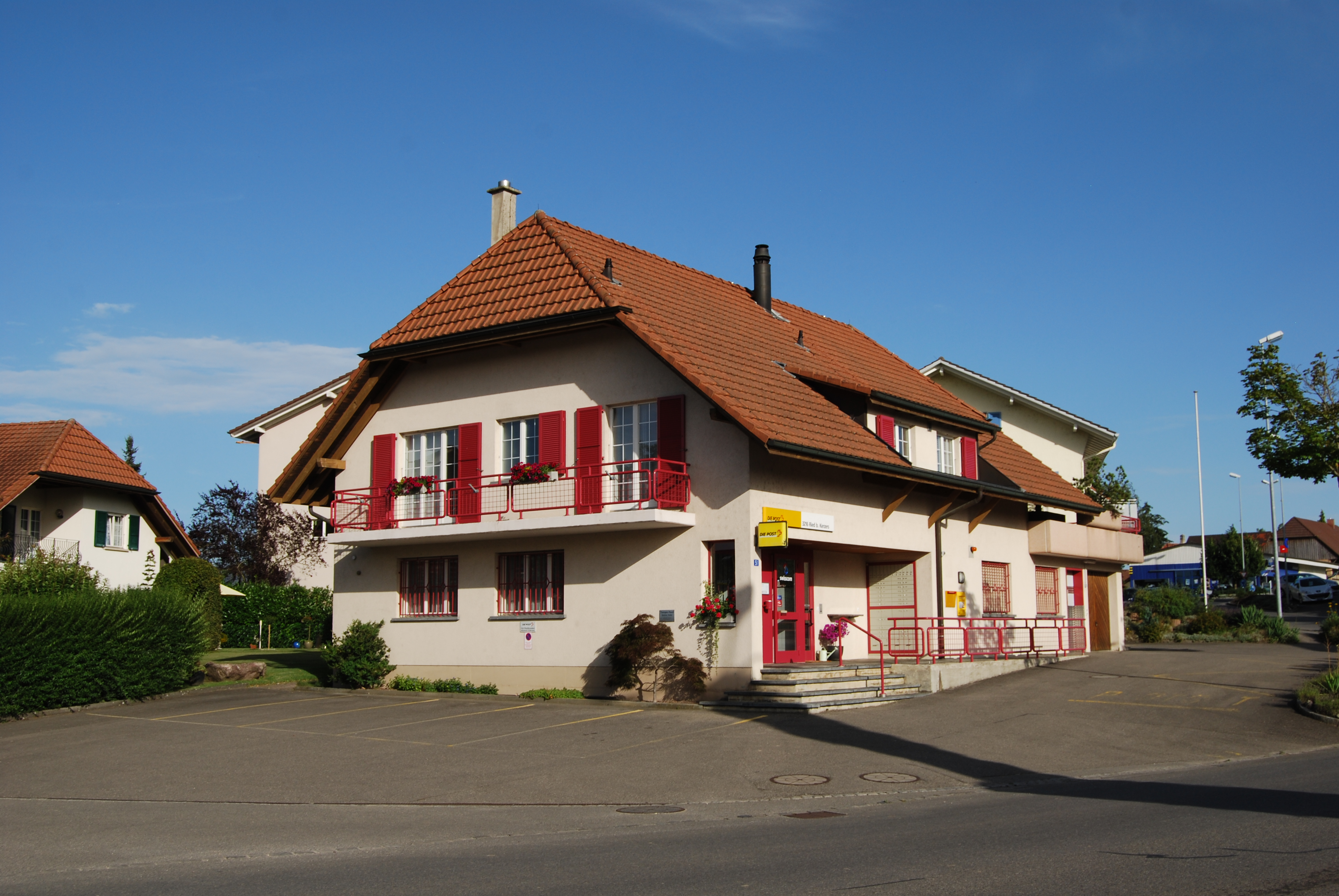 Ried bei Kerzers, canton of Fribourg, SwitzerlandEsperanto: Ried ĉe Kerzers, Kantono Friburgo, Svislando